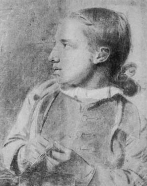 James Stuart (1713-1788), architect, from the Royal Institute of British Architects collection